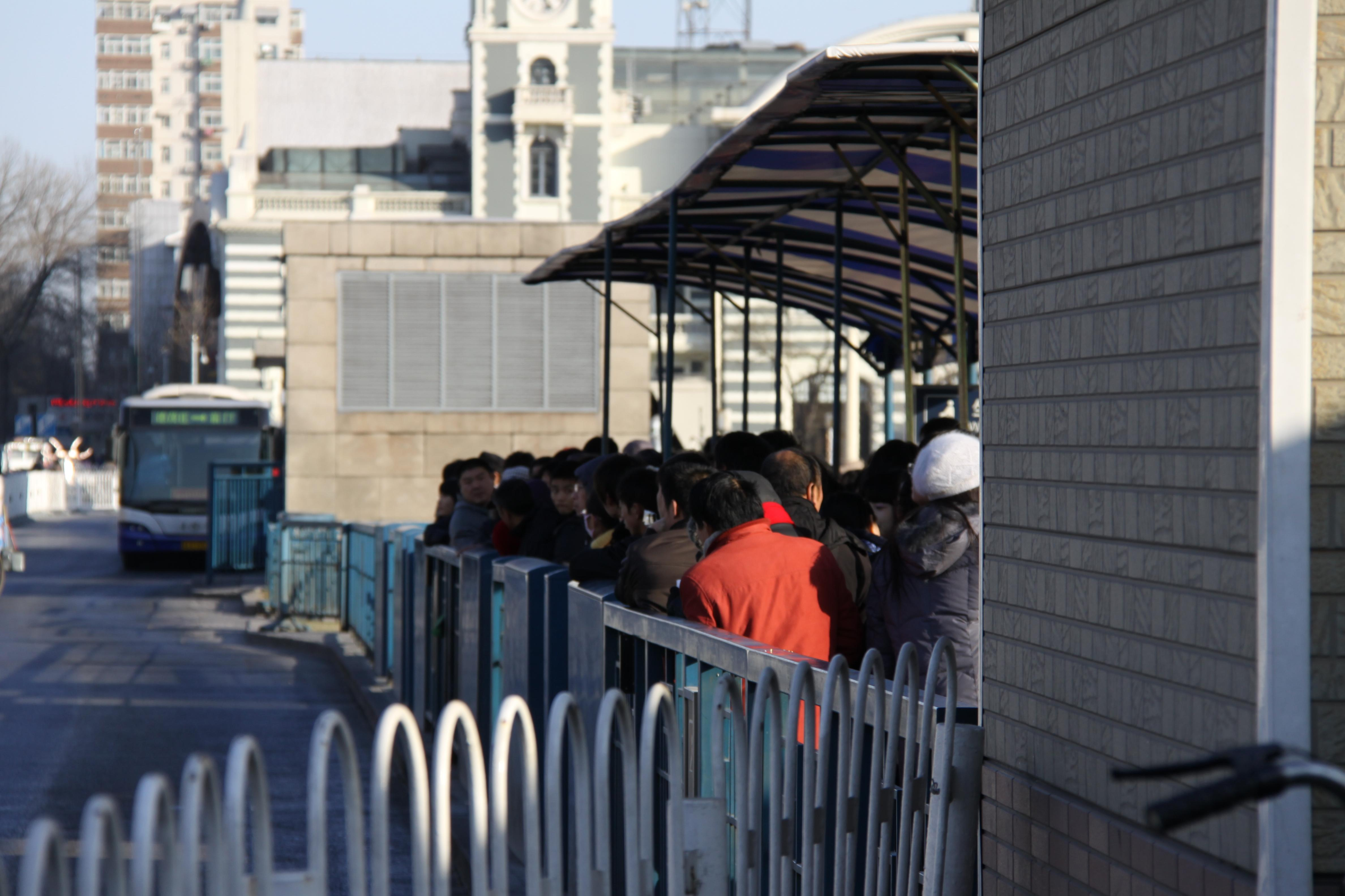 people are waiting the bus on dept platform of Beijing BRT line 1 Qianmen Stop.